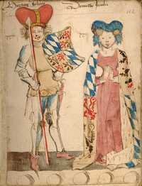 Depiction of Countess Jacqueline of Holland and Bavaria (right) and her opponent, Count John III of Holland and Bavaria (left)